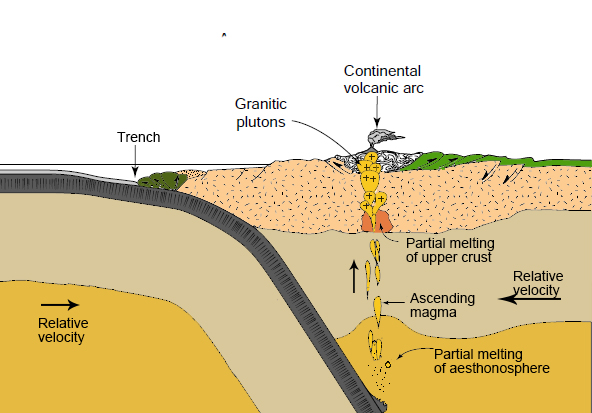 Formation sketch of continental arc. Modified after Earth Structure Figure 17.16(a).